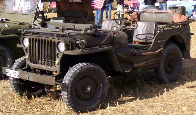 Willys MB Jeep 1944